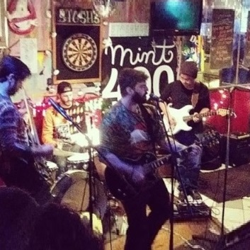 Ruby Bones performing live at Stoshs in New Jersey, 14 December 2018.